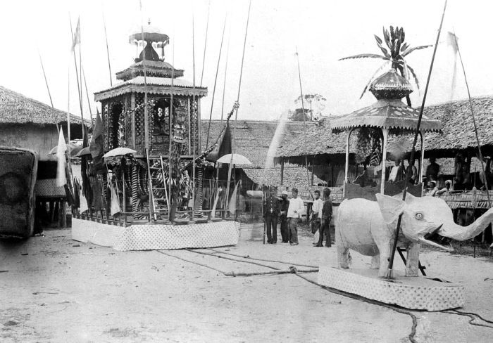 Wedding Carriage of the Sultan of Koealoe, Asahan, North Sumatra